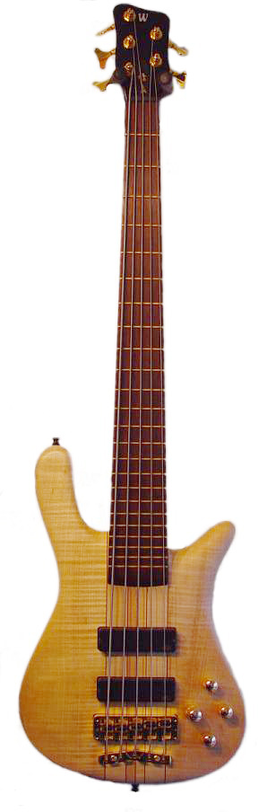 Warwick Streamer Stage I 5-string bass